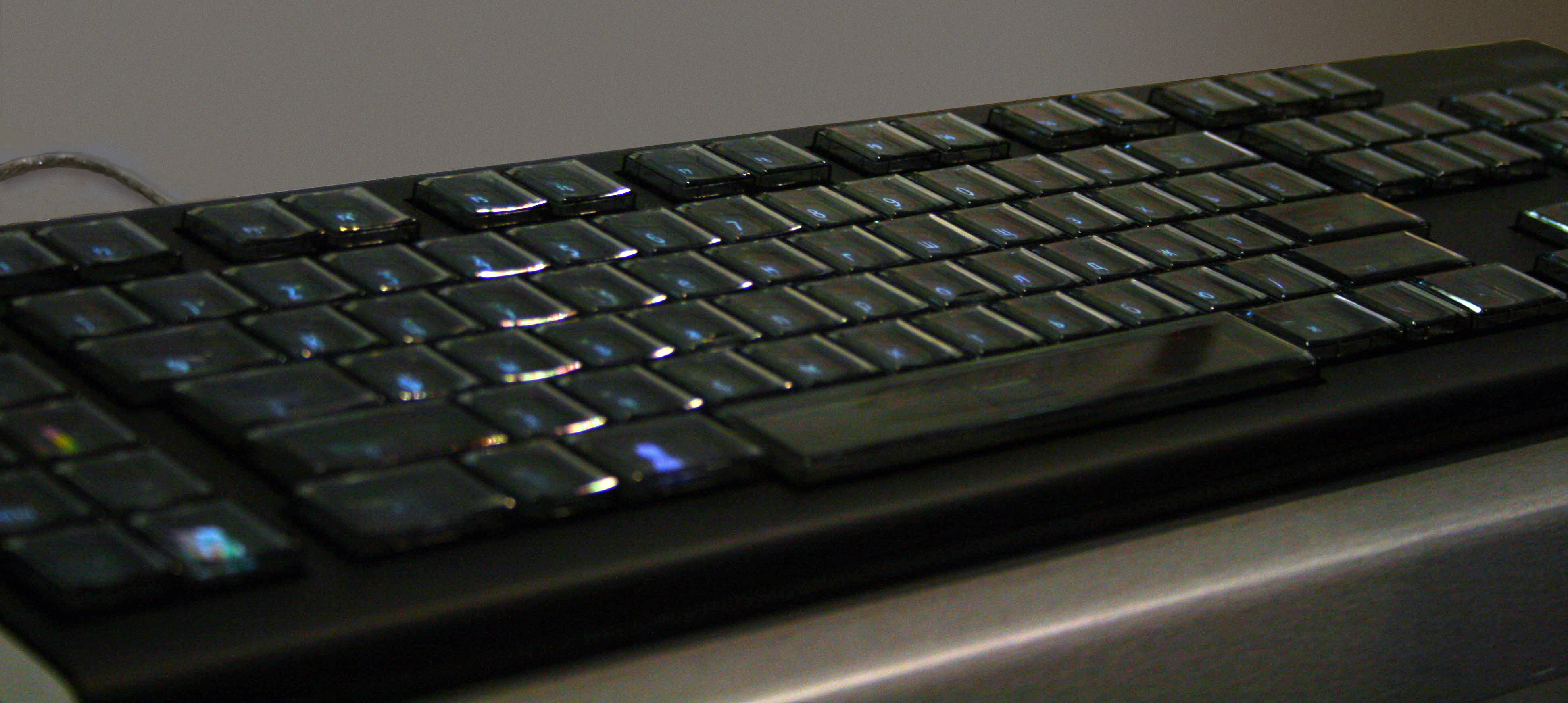 A famous keyboard by Art Lebedev studio. Each key is a LED there.